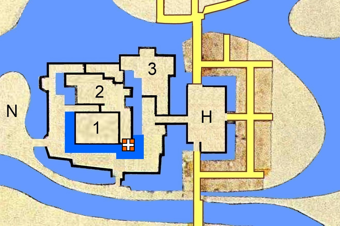 Layout of old Yodo castle